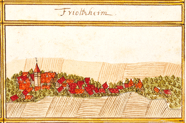 View of Friolzheim from the forest register books created by Andreas Kieser